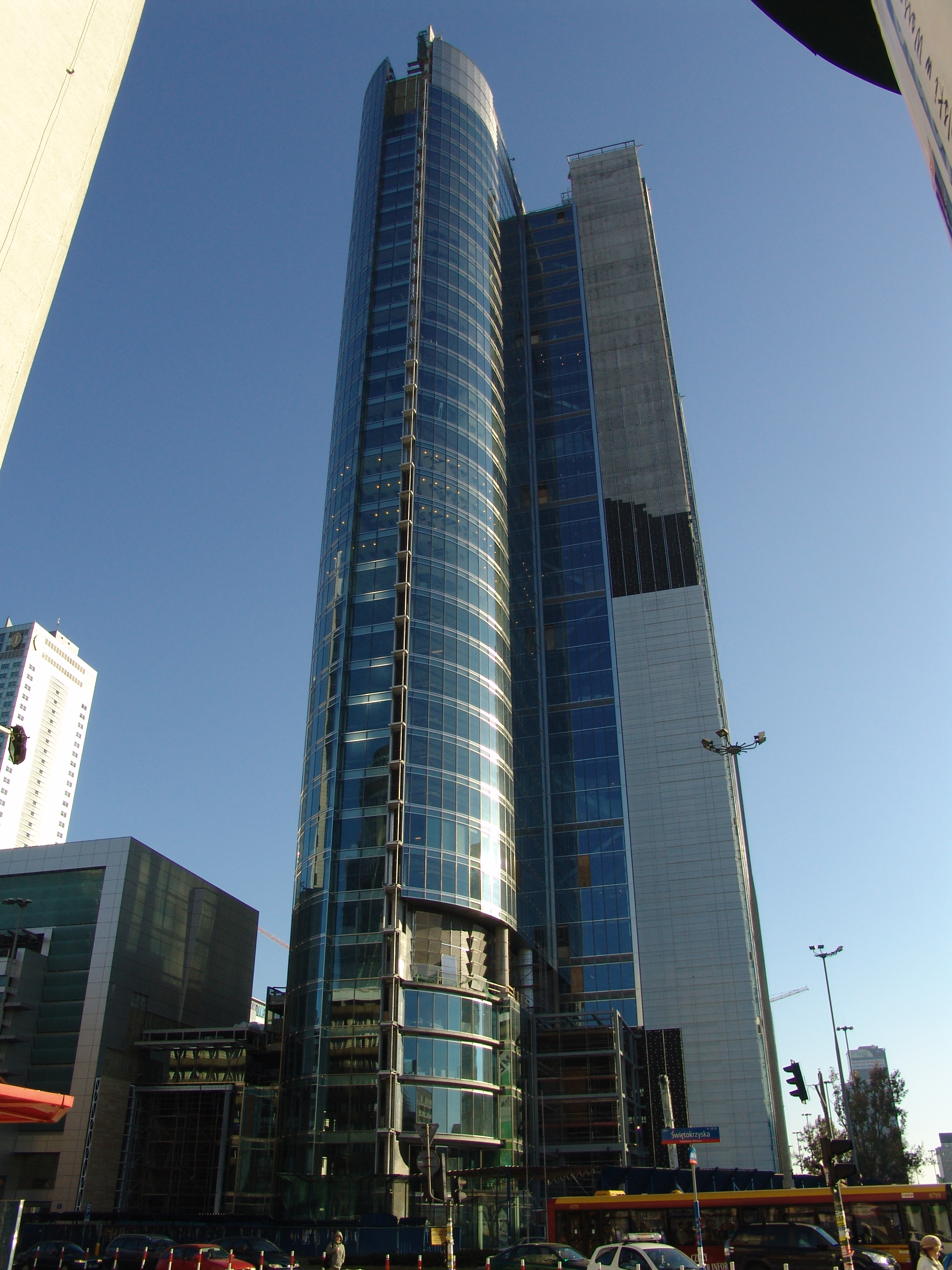 Rondo 1 (192m) in Warsaw, Poland